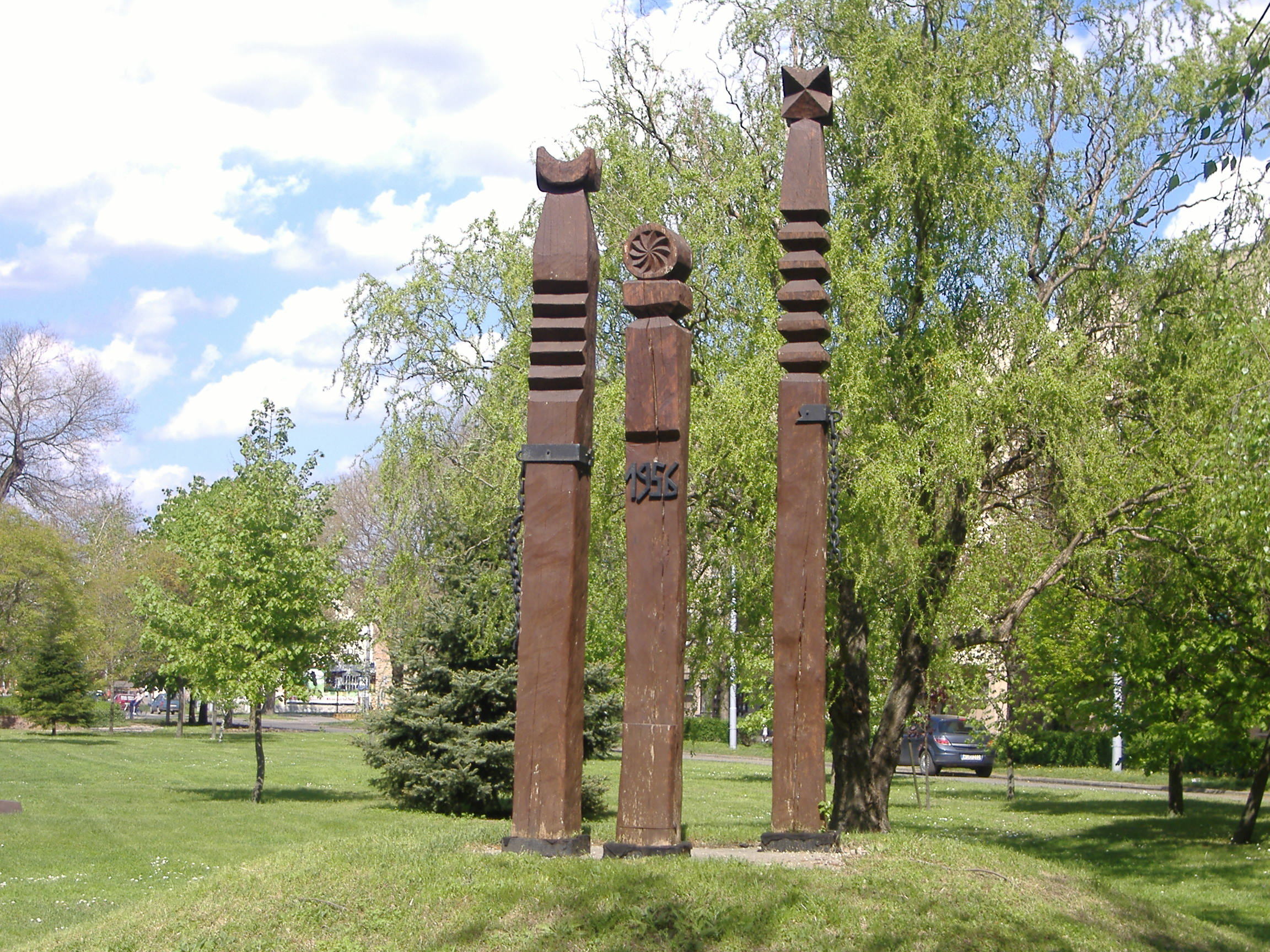 Memorial for the victims of the Hungarian Revolution of 1956 in Makó, Hungary.